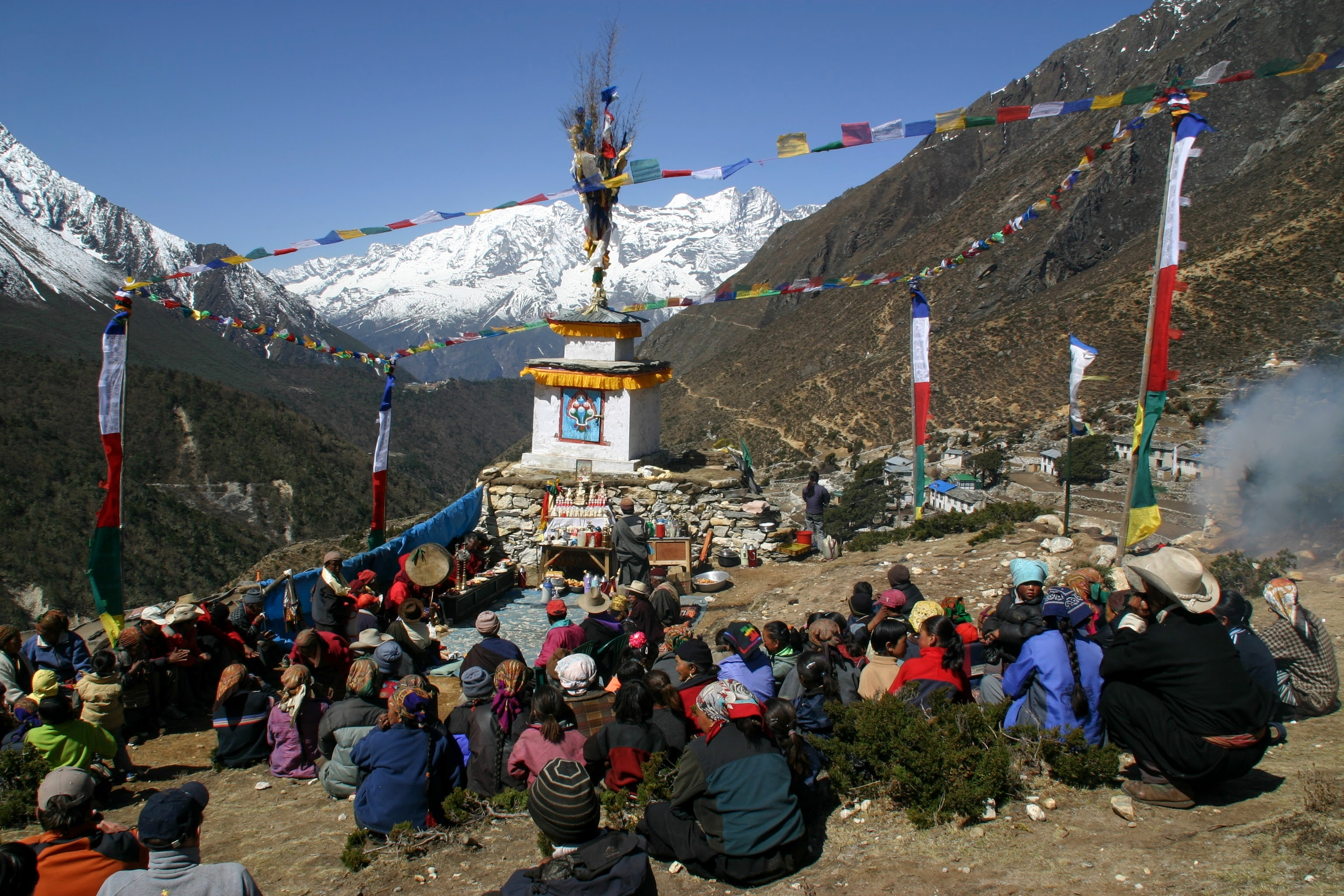 Buddhist holiday, in Pangboche near Phortse, Sagarmatha National Park, Nepal